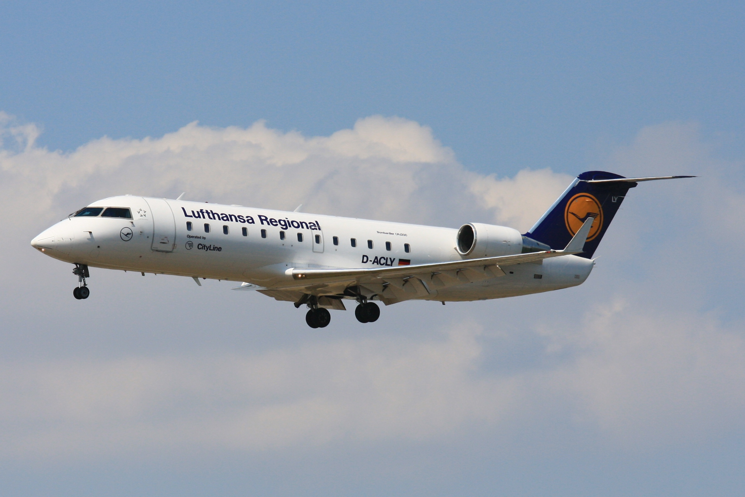 A CRJ 200 of City Line landing at Frankfurt Airport